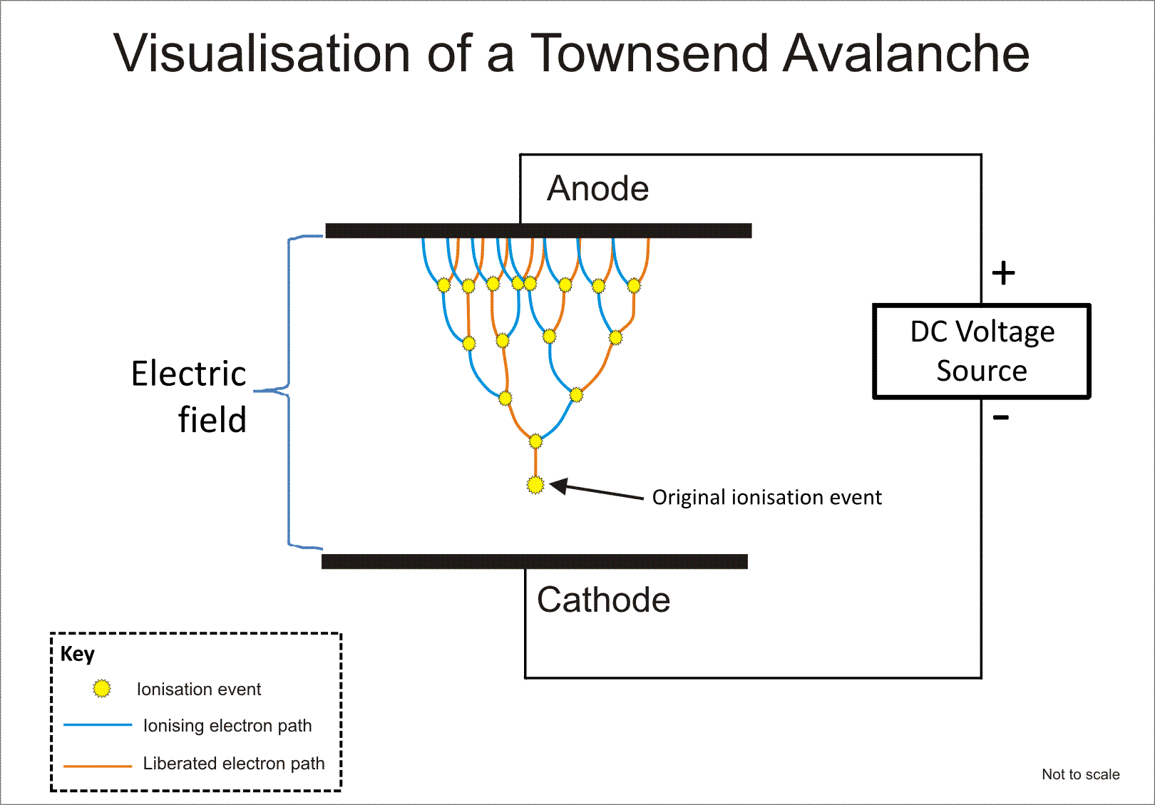 Visualisation of an electron avalanche, also known as a Townsend discharge or a townsend avalanche. The applied electric field accelerates free electrons to collide with other atoms and release further electrons, causing an avalanche. This phenomena is used in a variety of radiation and particle detection instruments where the gas multiplication effect is used. This includes Geiger-Muller counters and Proportional counters.